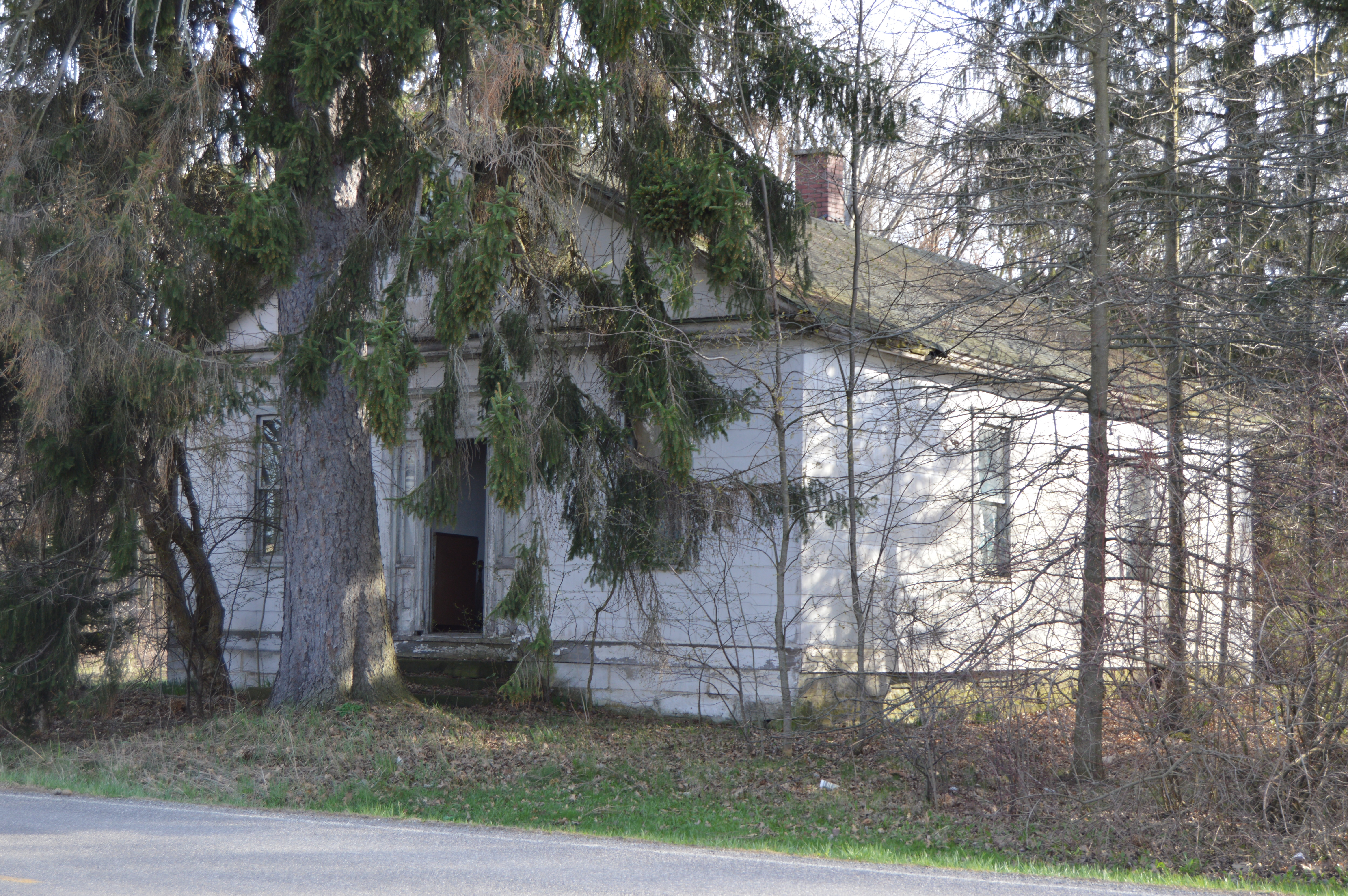 Northern side and front of a decaying Greek Revival house on the western side of the junction of Pennsylvania Route 258 at Amsterdam in Liberty Township, Mercer County, Pennsylvania, United States.